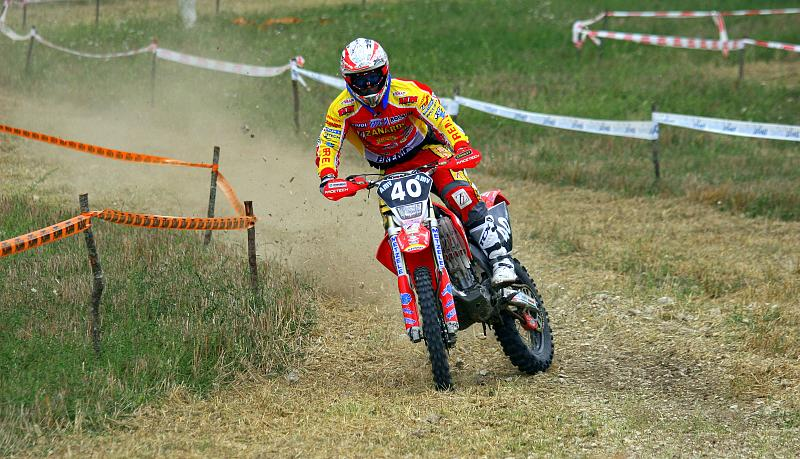 Jari Mattila riding his Honda E1 bike at the 2008 World Enduro Championship Grand Prix of Italy in Piediluco.